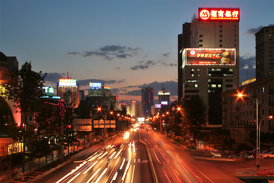 Kunming City, Yunnan Province, China